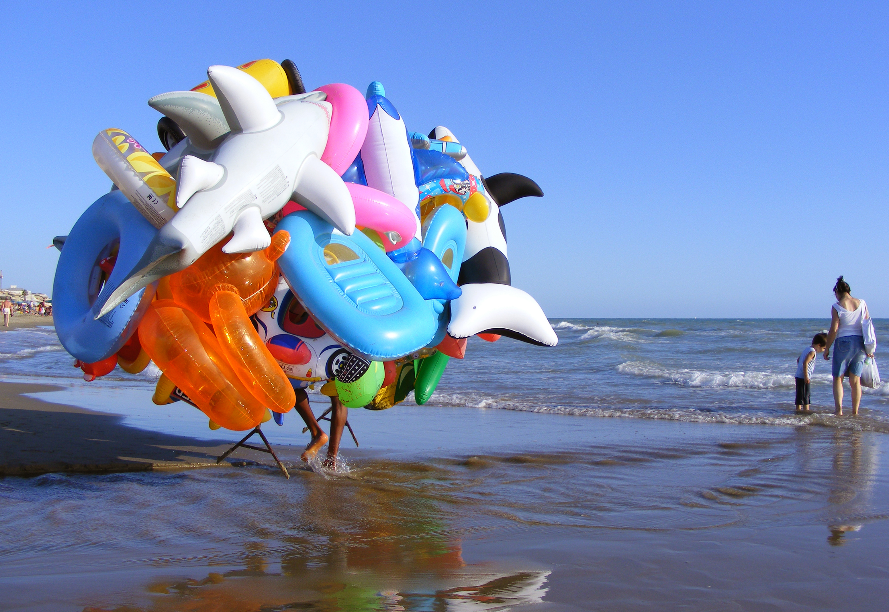 Inflatable toys peddler at the seaside (Beach of Ostia, near Rome, Italy)